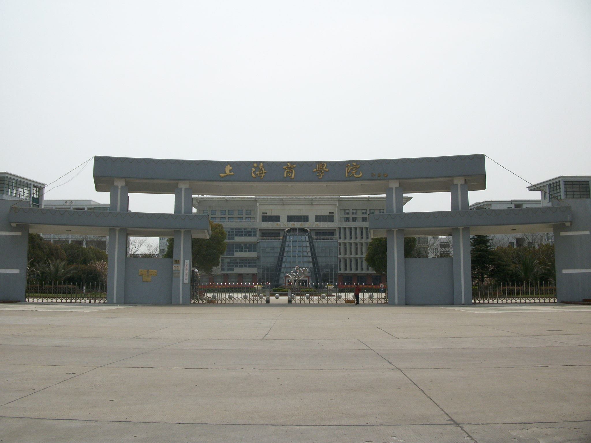 The gate of Shanghai Business School, Fengxian campus.